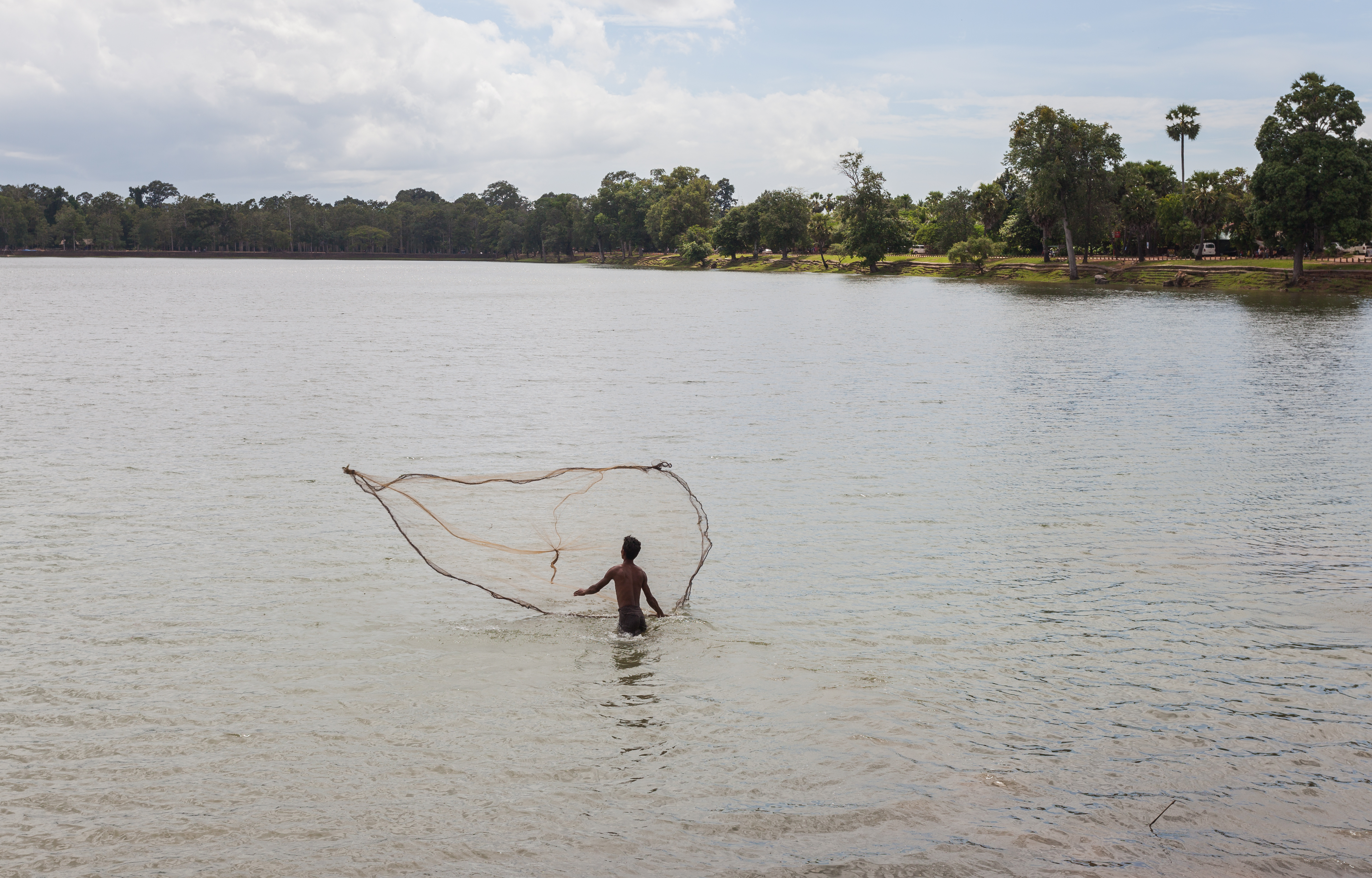 Srah Srang, Angkor, Cambodia